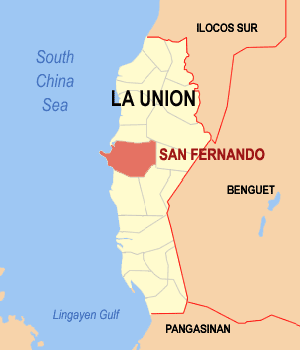 Map of La Union showing the location of San Fernando